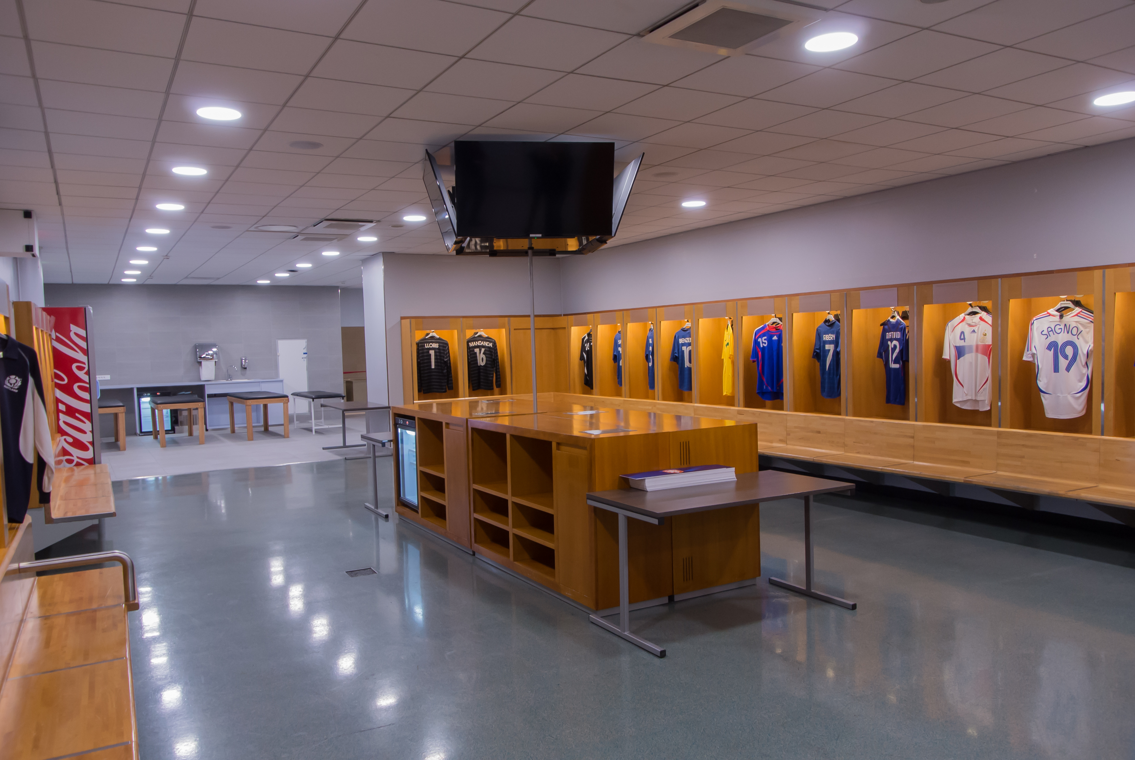 Visitors Changing Rooms at Stade de France, Saint Denis. Please note that this was the Changing Room for the french team at the World Cup 1998 Final (technically it was the Brazilian team who was hosting)